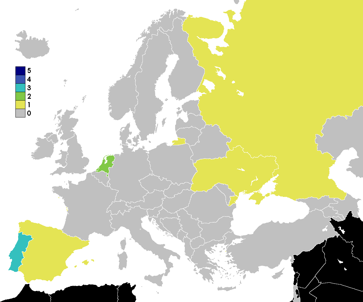 Number of allocated teams per country in 2010–11 UEFA Europa League.